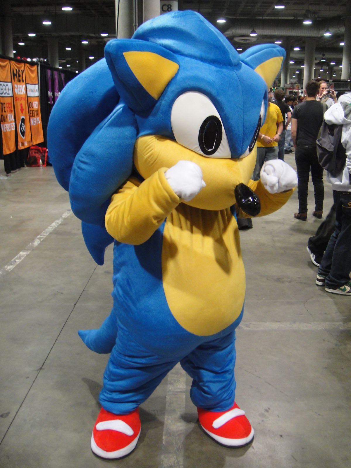 photo 2011 Pop Culture Geek taken by Doug Kline If you're interested in higher resolution versions of my images, contact me via my profile page.